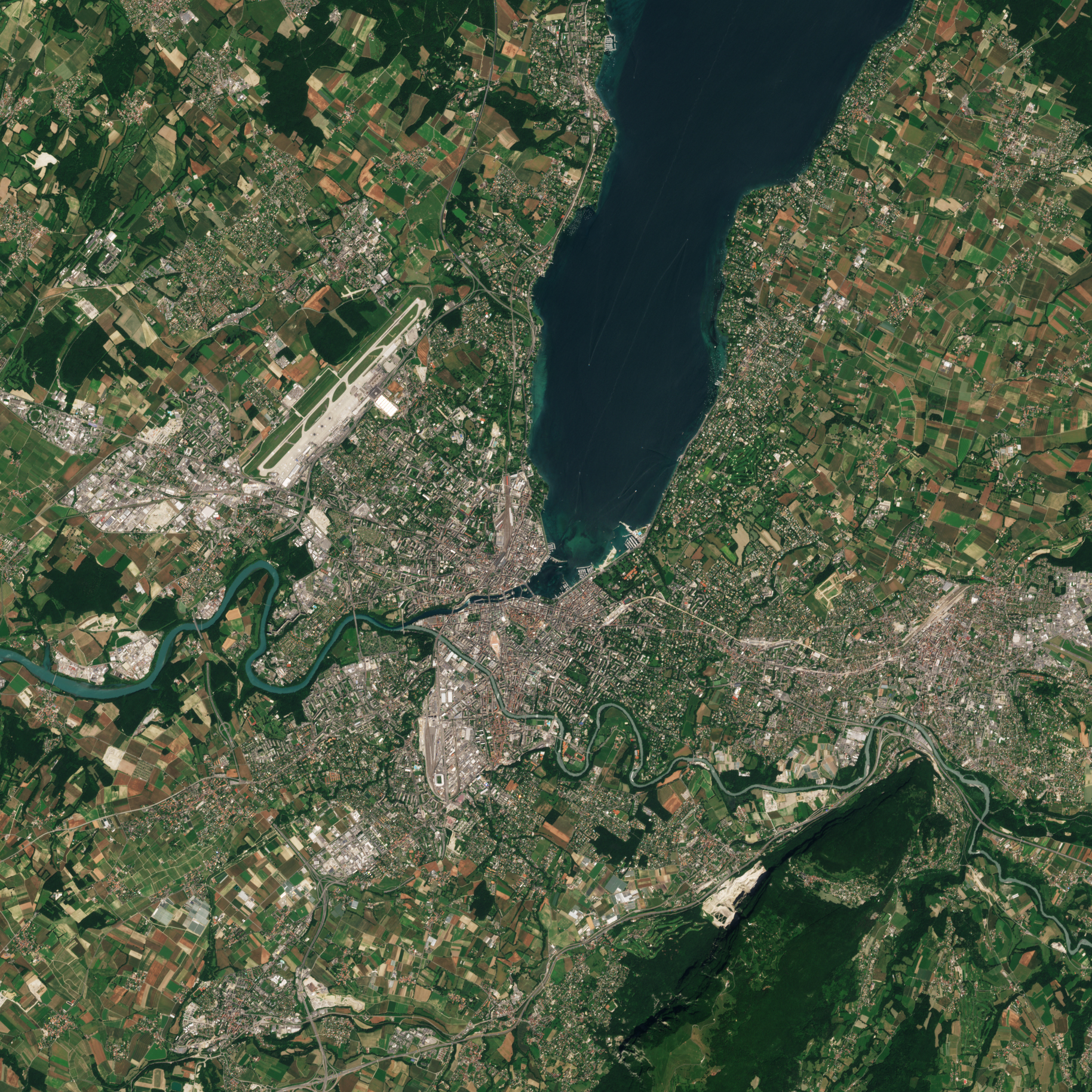 Date: 2018-06-19 Sensor: MSI on Sentinel-2B Resolution: 10m RGB Composites: True color, Band 4-3-2